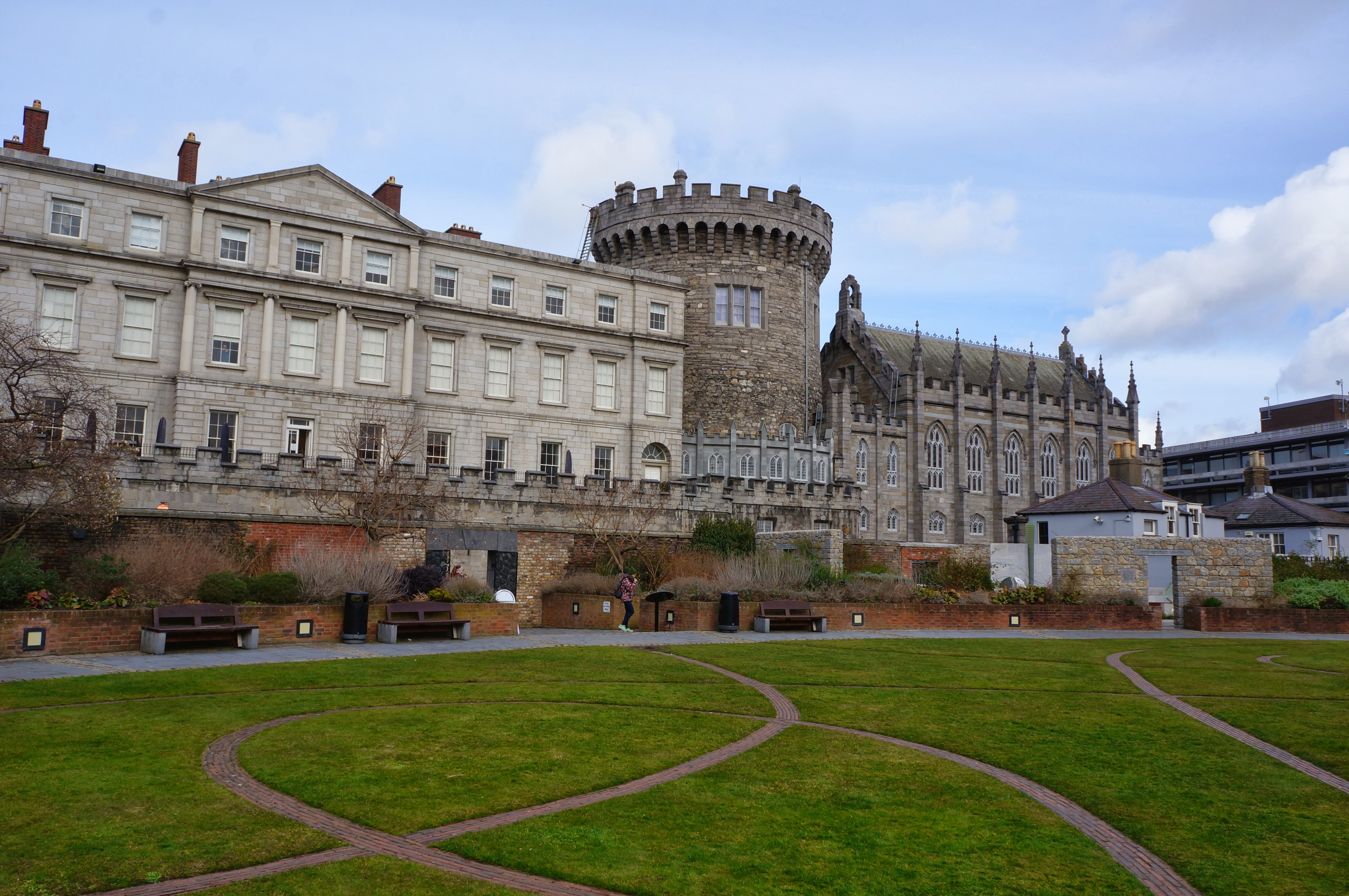 Dublin Castle